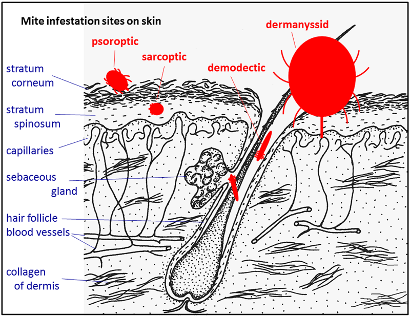 Diagram showing sites of infestation by parasitic mites in skin of domestic animals.